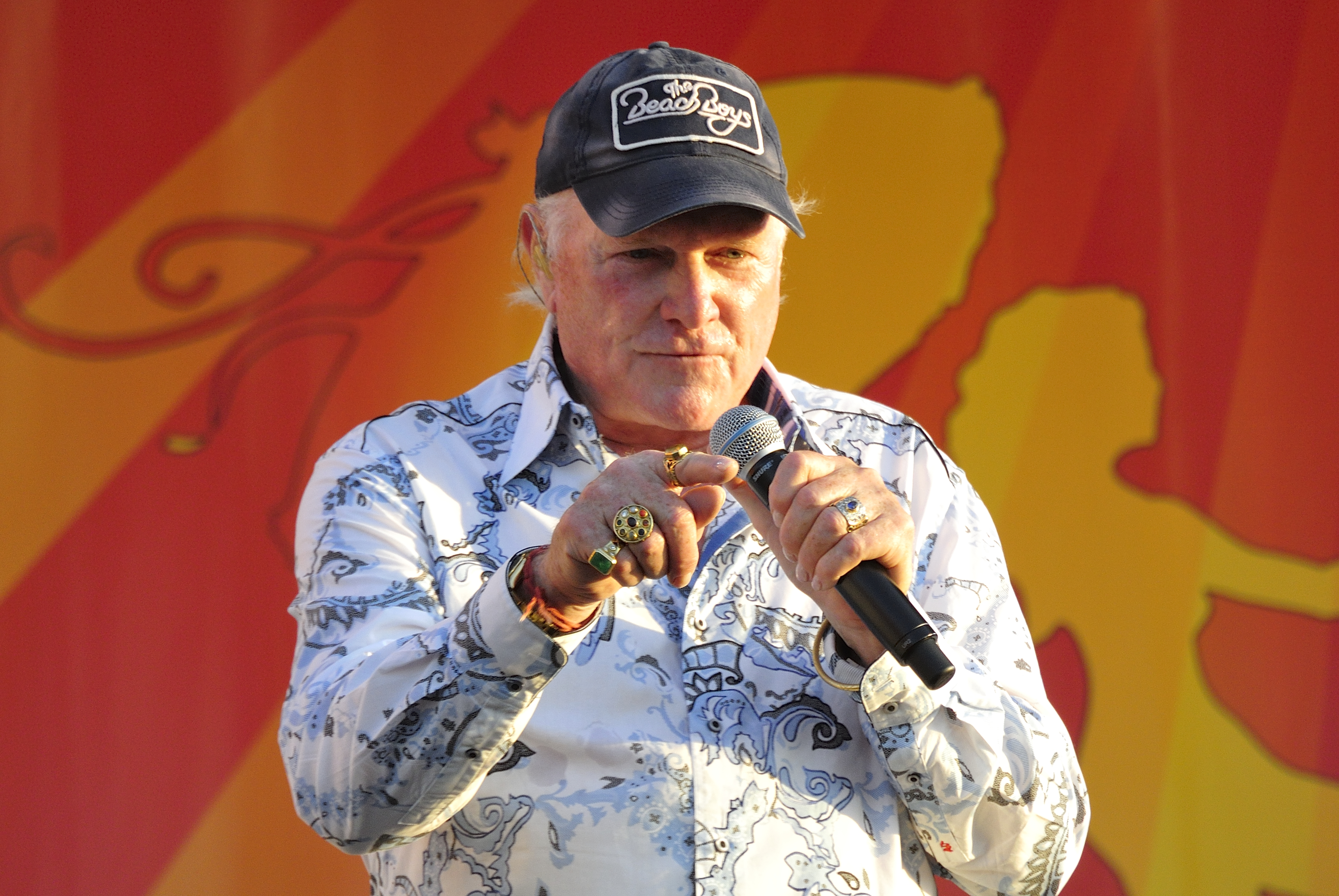 The Beach Boys 50th Anniversary Reunion - New Orleans Jazz & Heritage Festival 2012